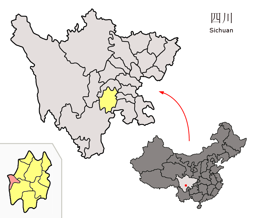 Location of Jinkouhe District (pink) and Leshan Prefecture (yellow) within Sichuan province of China Map drawn in september 2007 using various sources, mainly : Sichuan province administrative regions GIS data: 1:1M, County level, 1990 Sichuan Counties map from Map of Yunnan & Sichuan Area from